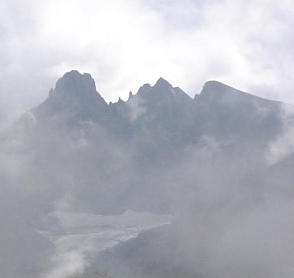 Grand Pic de Belledonne (left), the highest point of the massif, Pic Central de Belledonne in the middle and Croix de Belledonne to the right. This photo shows the northwest face, the glacier is the Glacier de Freydane.